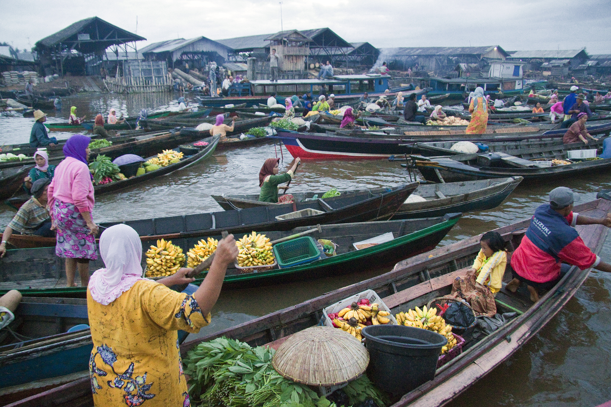 The Kuin River in Banjarmasin, South Kalimantan (Borneo)